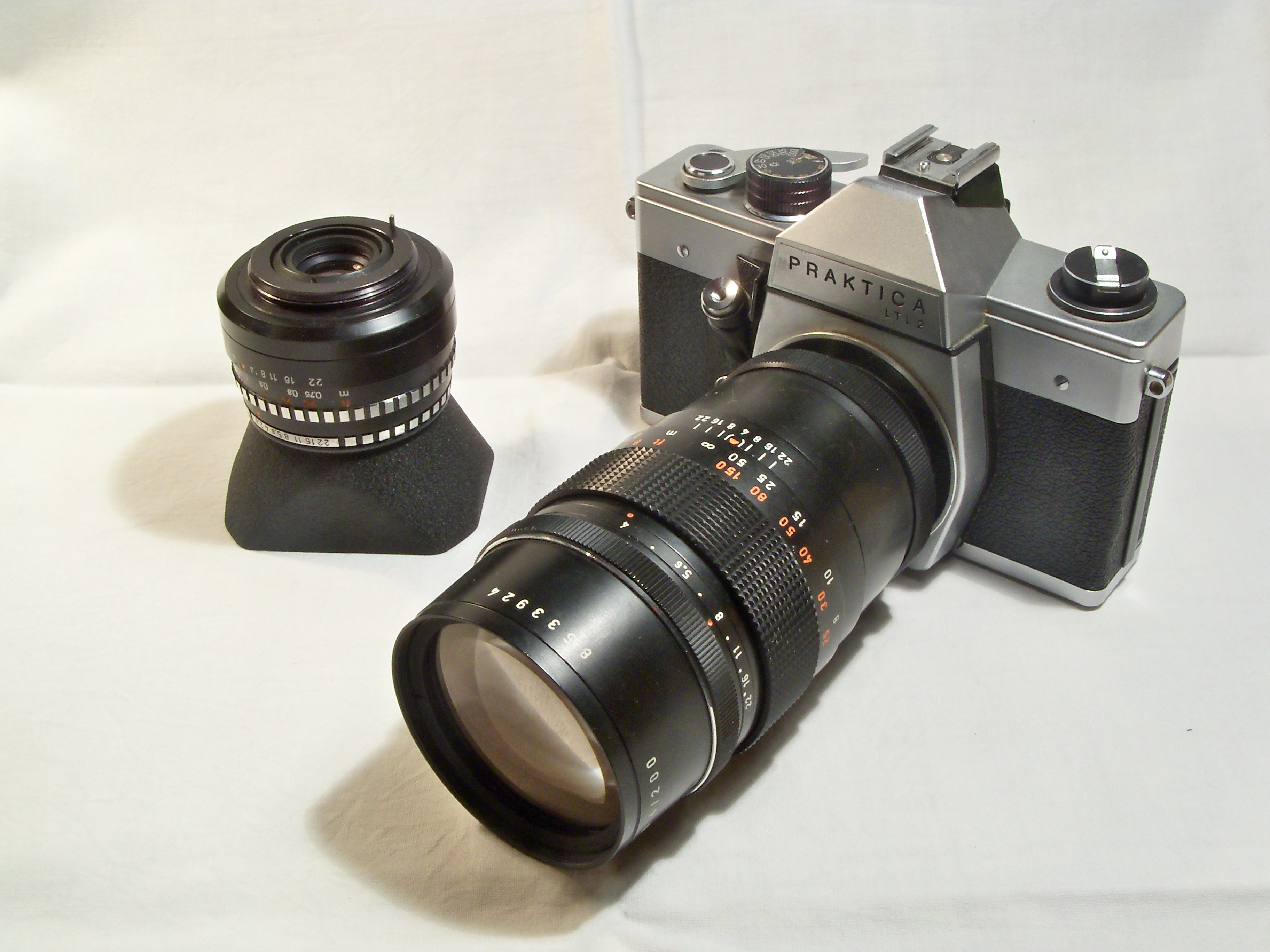 A silver/black version of the german camera Praktica LTL 2